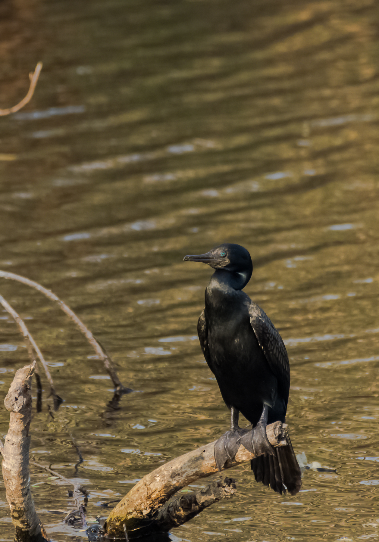 cormorant